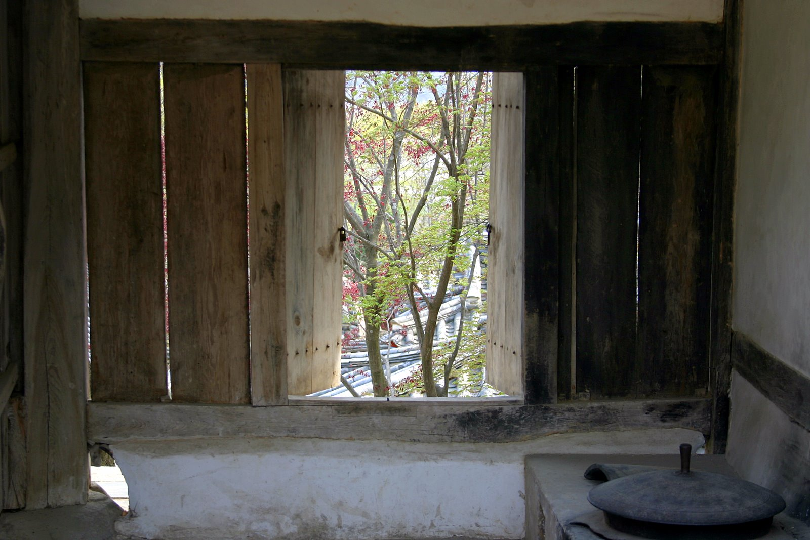 A view of Dosan Seowon, Andong City, Gyeongsangbuk-do, South Korea